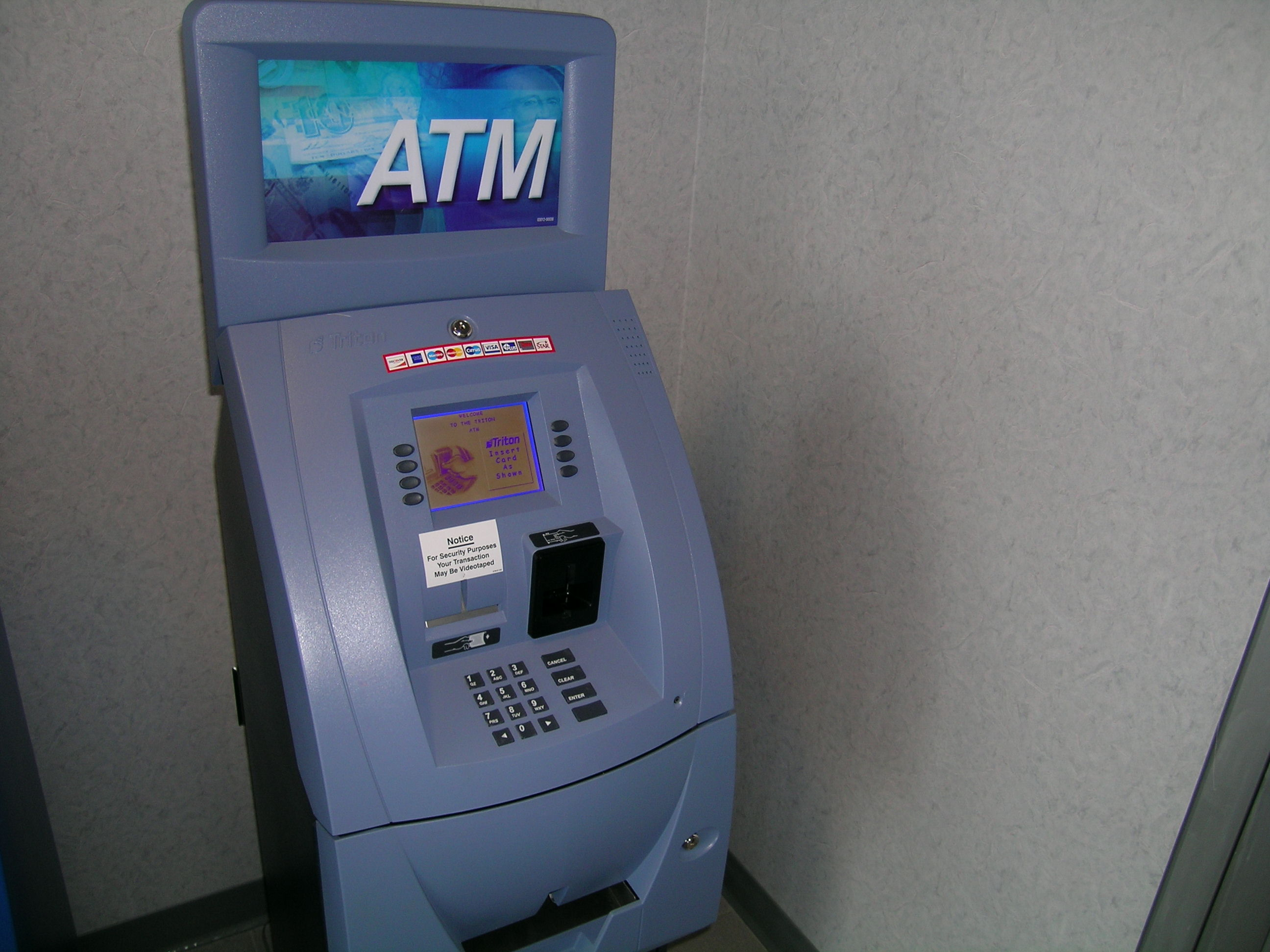 ATM at the secretary of state in Portage, MI